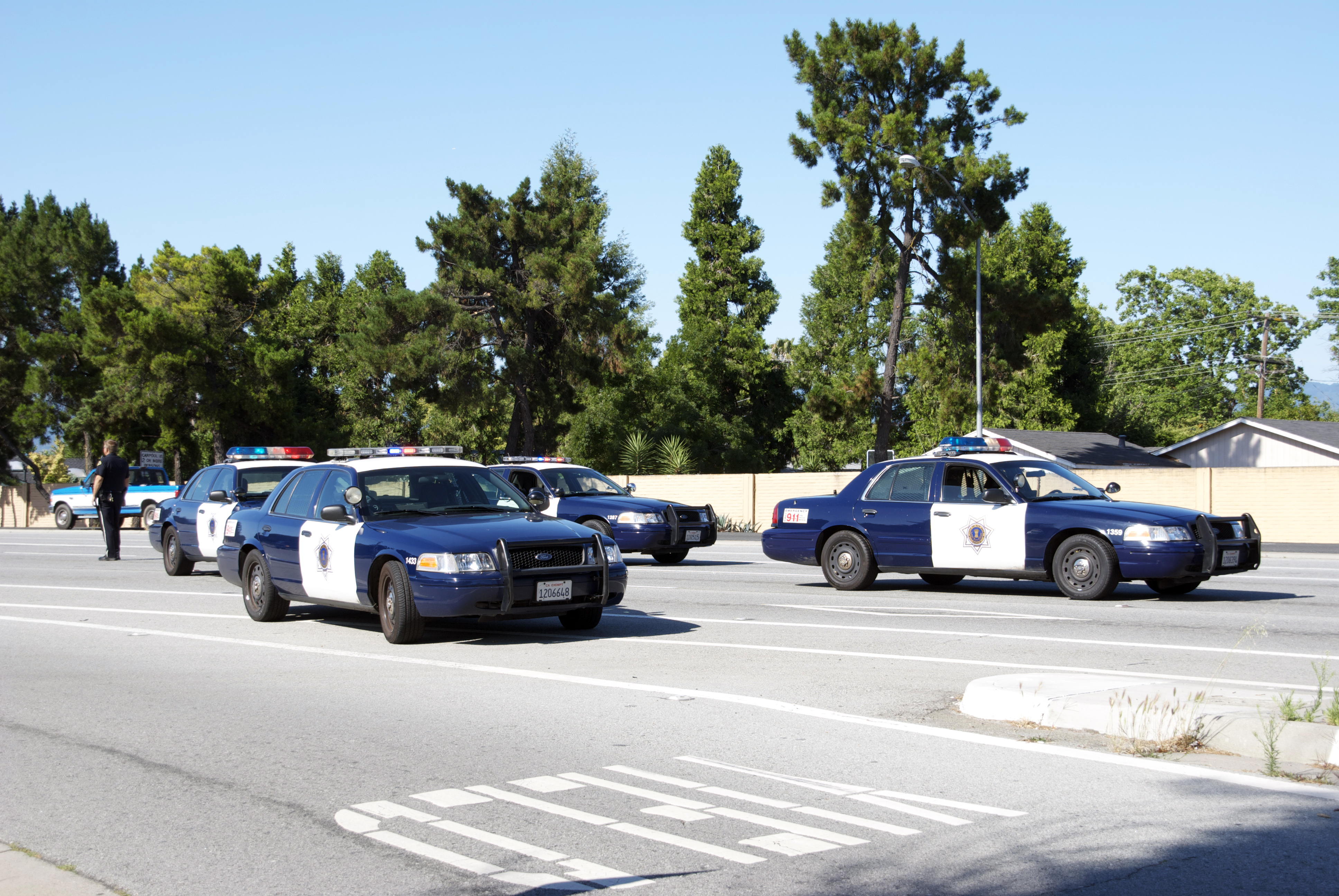 4 squads